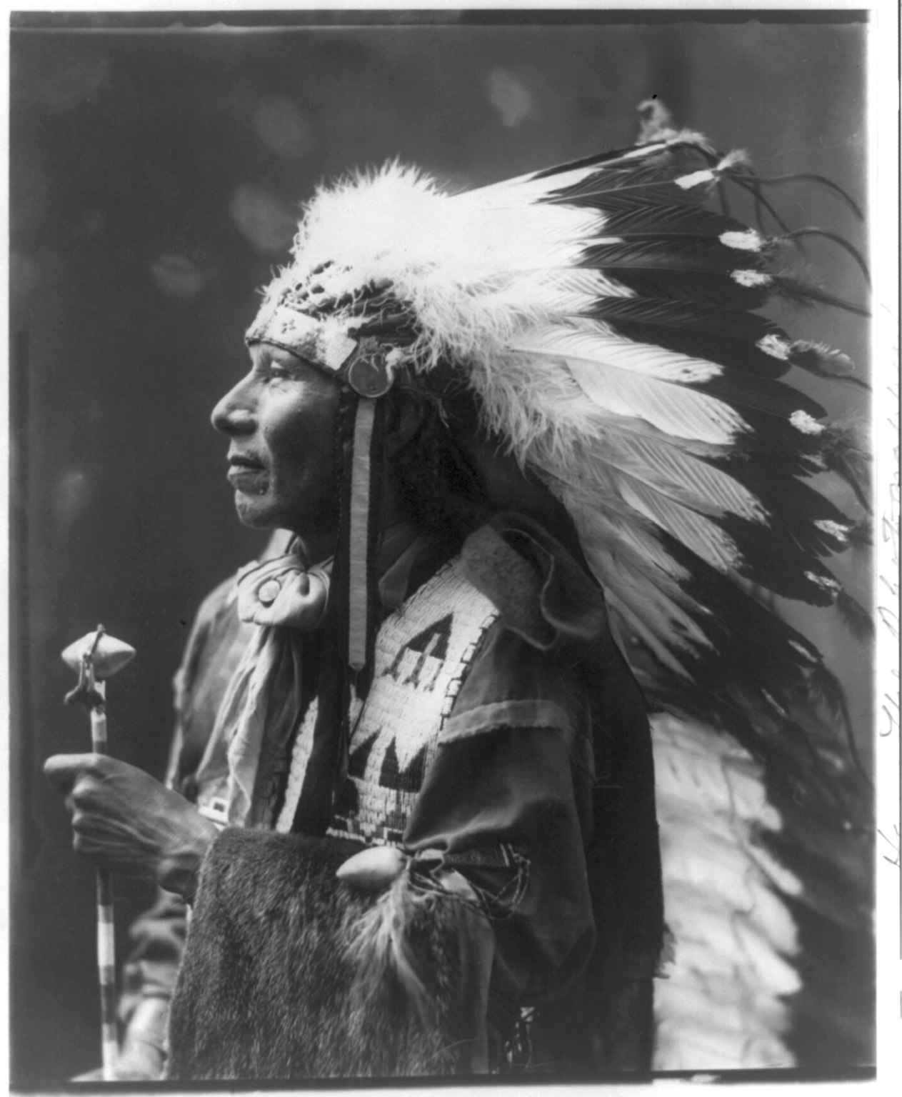 Title: Standing Bear Abstract/medium: 1 photographic print.